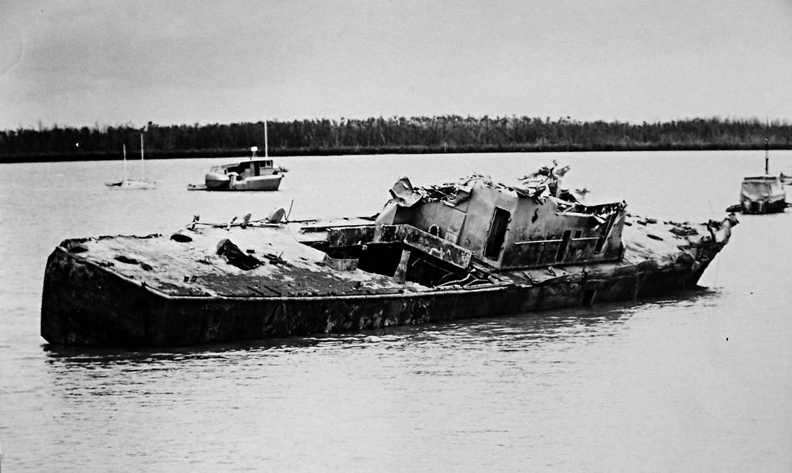 Photograph of HMAS Arrow beached in Francis Bay in early 1975